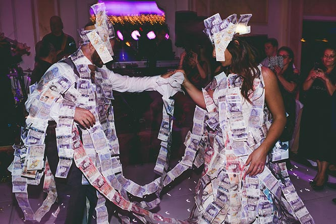 Greek Wedding Photography Money Dance